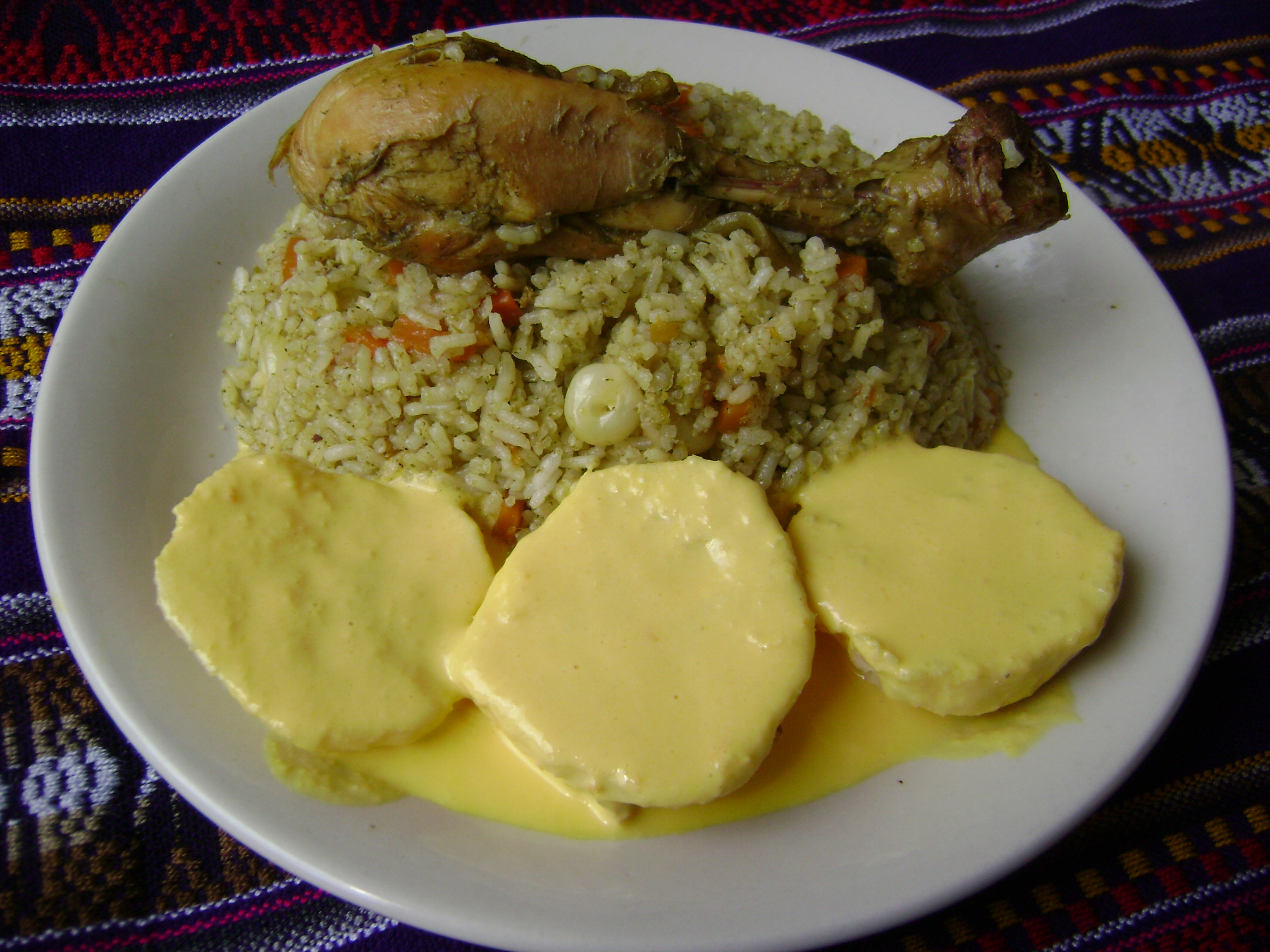 "Arroz con pollo" and "papa a la huancaína". Home-made. Lima, Perú.